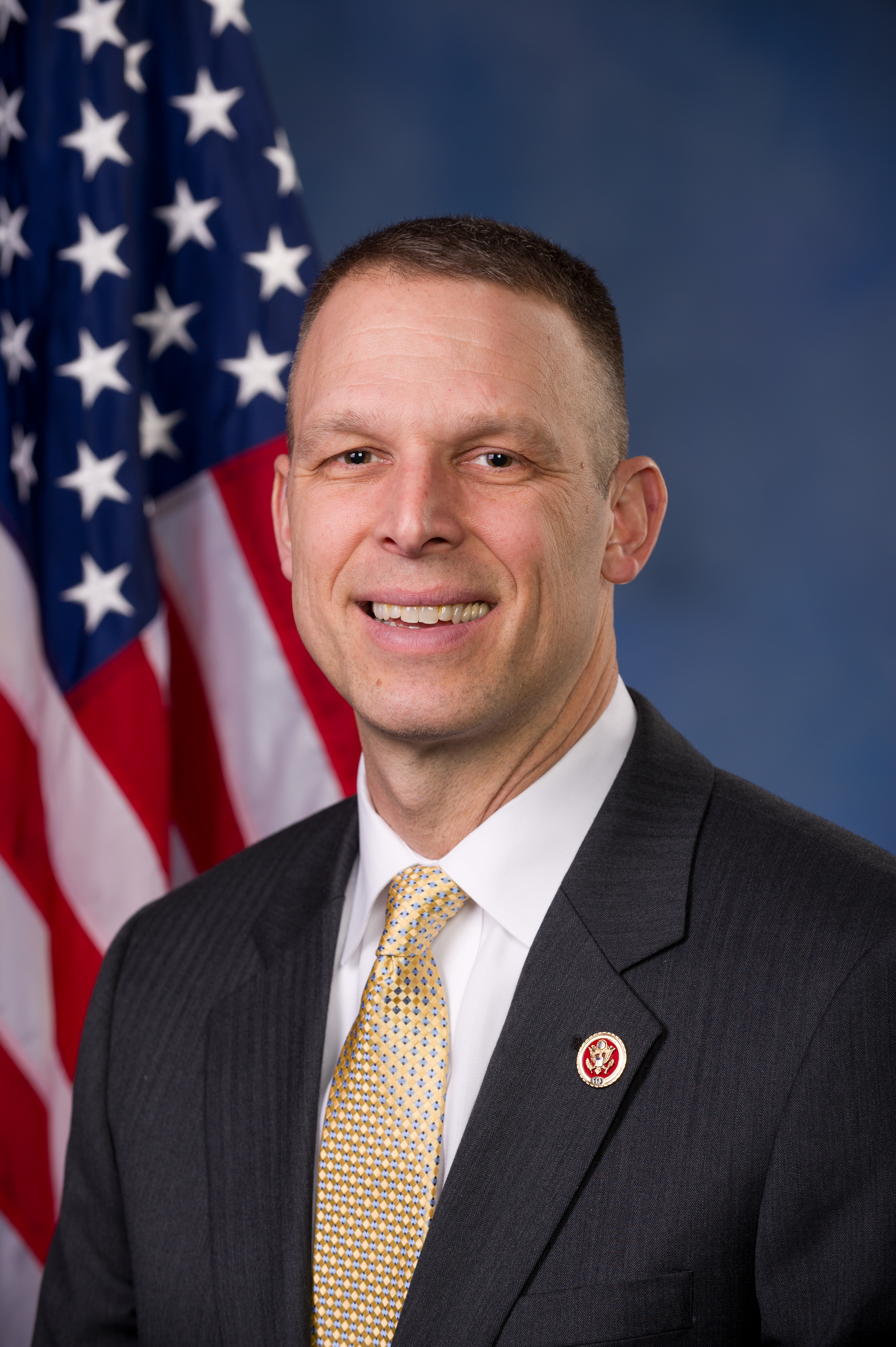 United States Congressman Scott Perry.